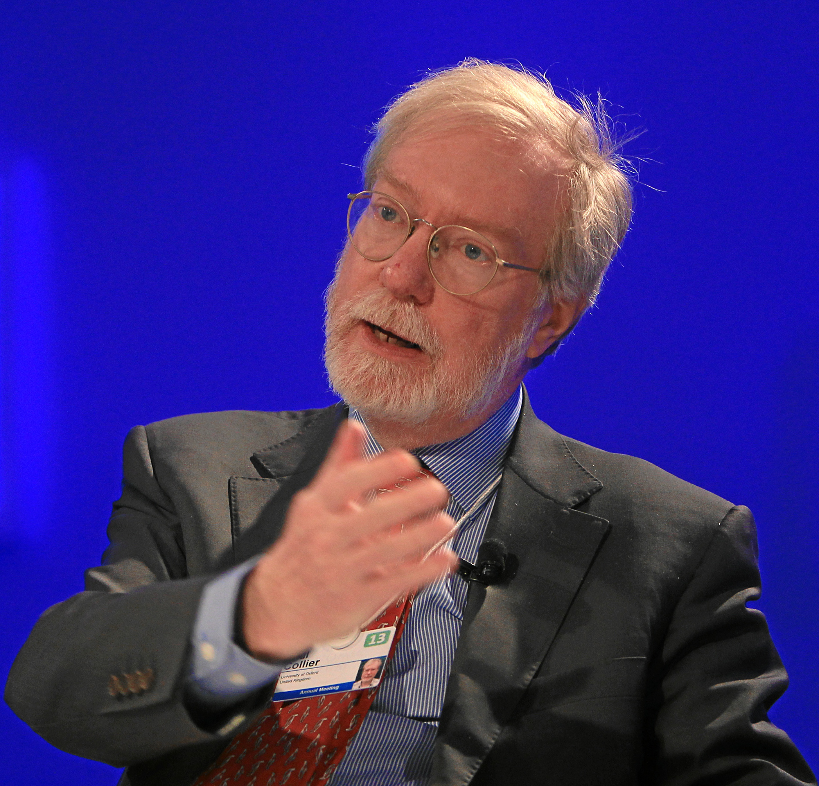 DAVOS/SWITZERLAND, 23JAN13 - Paul Collier, Professor of Economics, Department of Economics, University of Oxford, and Director, Centre for the Study of African Economies, United Kingdom; Global Agenda Council on Governance for Sustainability speaks during the arena session 'The Human Development Context' at the Annual Meeting 2013 of the World Economic Forum in Davos, Switzerland, January 23, 2013.. . Copyright by World Economic Forum. . Sebastian Derungs